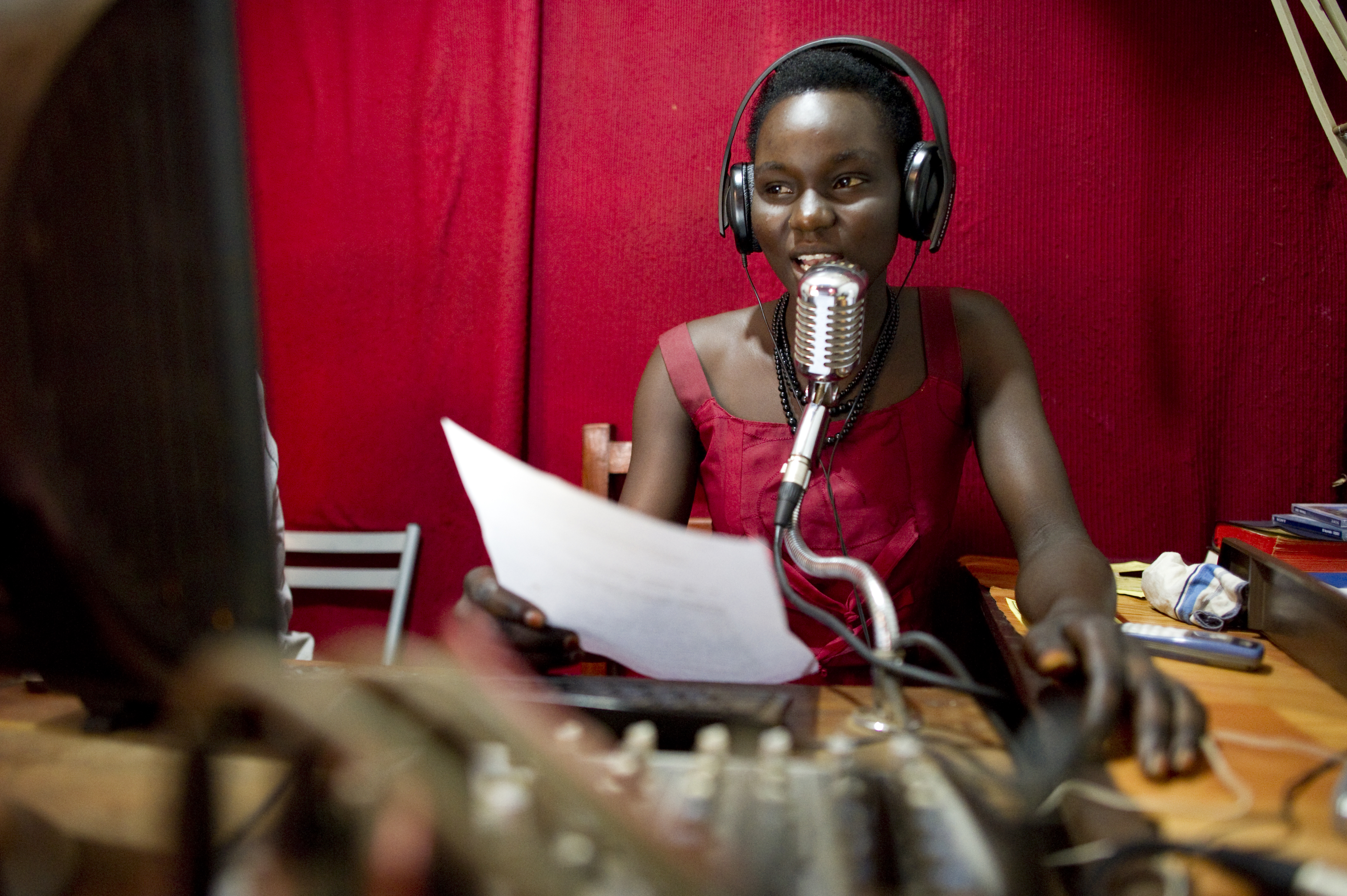 Google translation: New Mushroom Reads Lady Belinda Juaw the local radio station Spirit FM 99.9 Yei, South Sudan, disseminates information about the importance of everyone using their voting rights. She has received training through the Norwegian People's Aid.